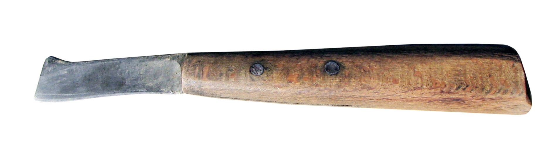 Self-Made bud-grafting knife (Tree Nursery, Kragujevac)